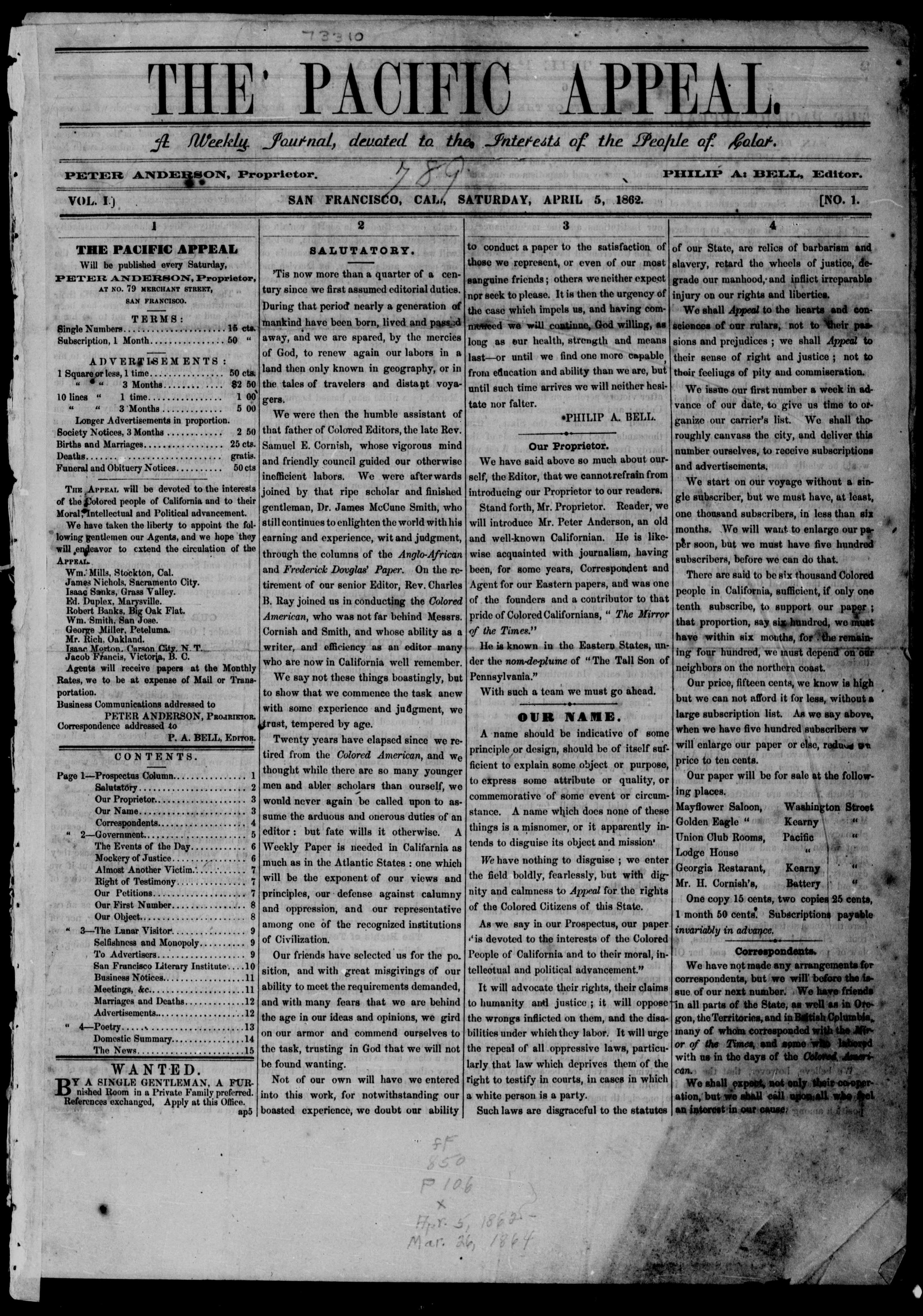 Inaugural issue of the ', an African-American newspaper based in San Francisco, California, dated April 5, 1862.